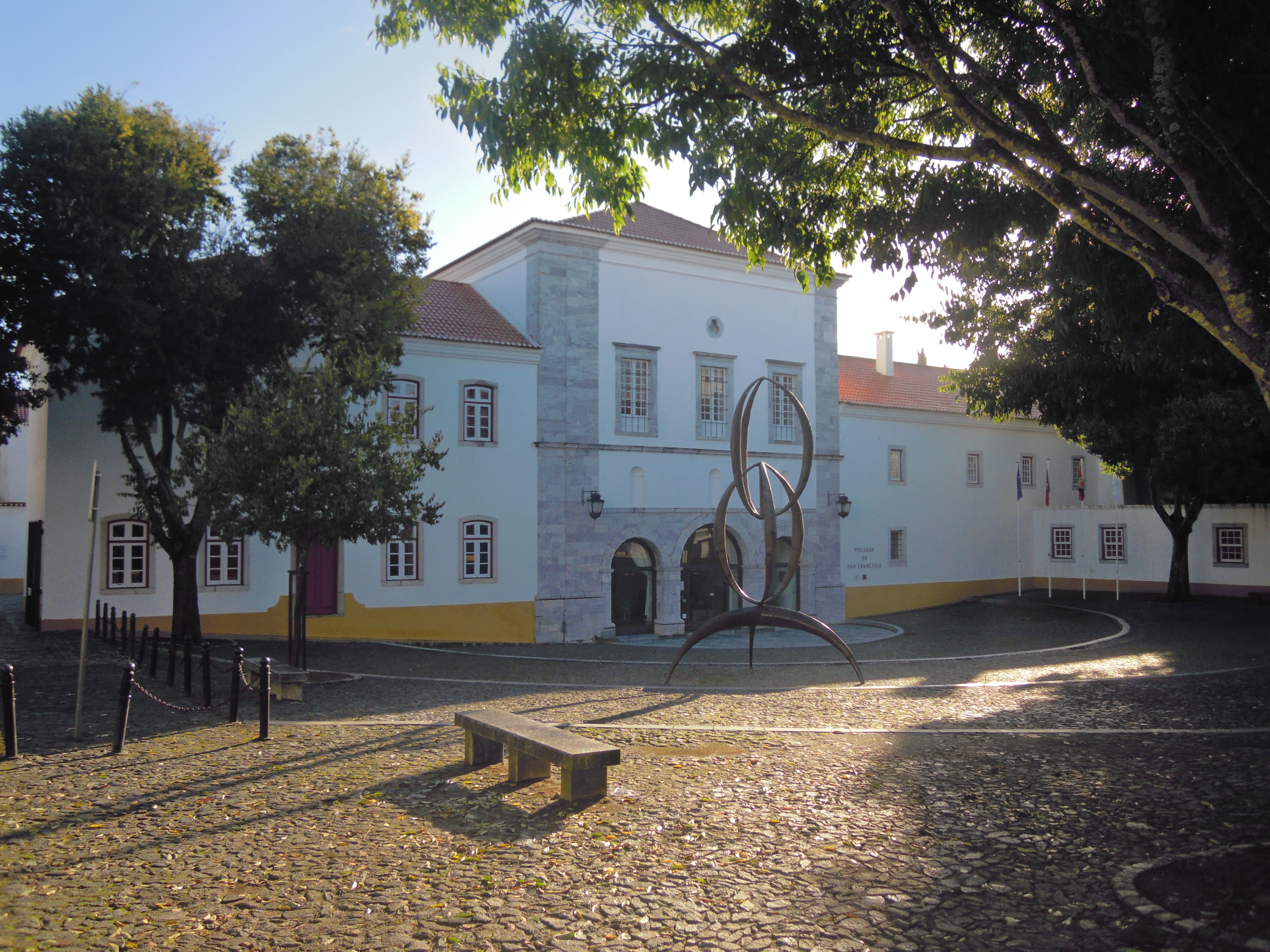 The Pousada de Beja is a Hotel located within the former Convent of San Francisco. The Pousade is on the Rua da Infantaria, Beja, Alentejo, Portugal.